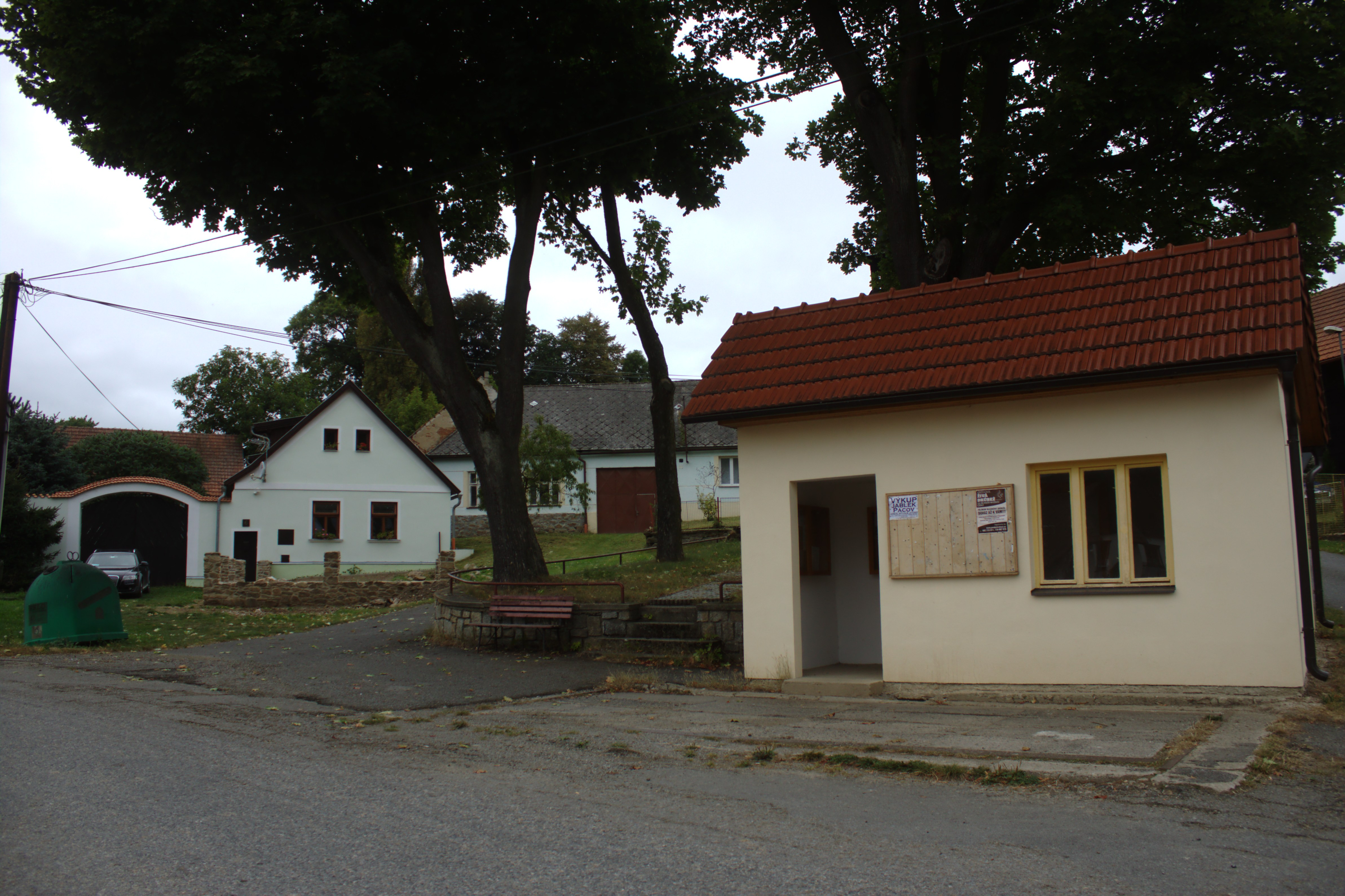 A bus shelter in the village of Radějov, Vysočina Region, CZ